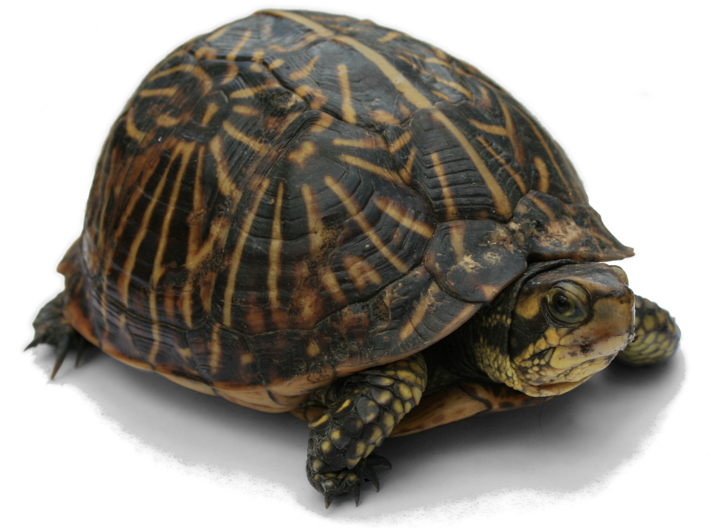 Unedited version of Image:Florida Box Turtle Digon3.jpg of a Florida Box Turtle (Terrapene carolina bauri). Taken in Jacksonville, Florida, USA.